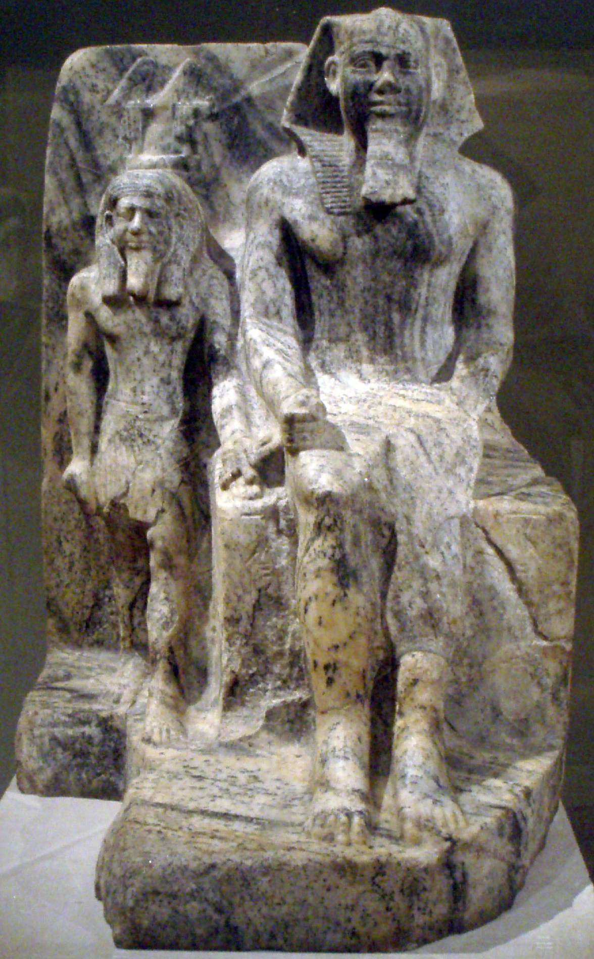 Sahure and a Nome God.